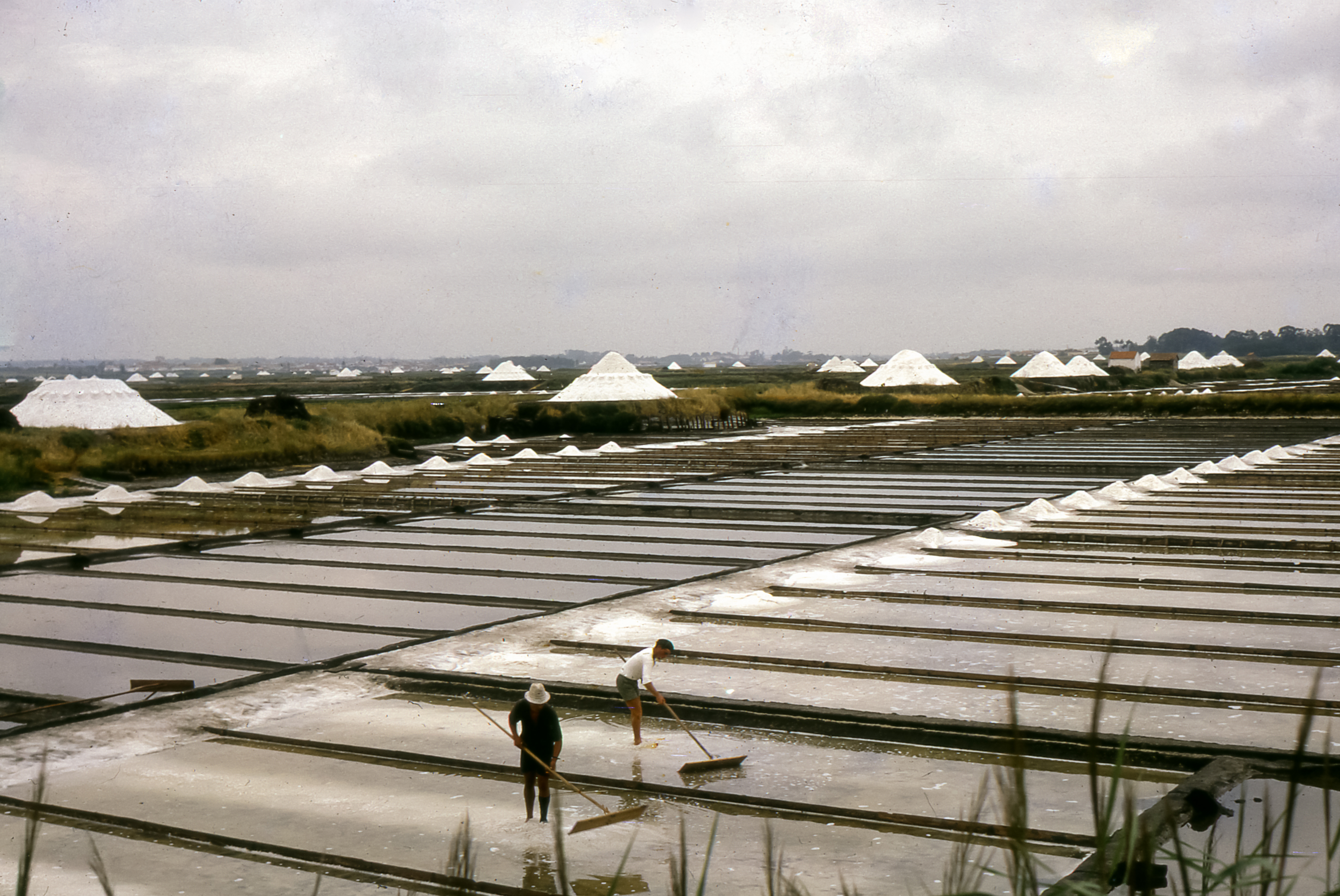 Salt Marshes of the Ría de Aveiro now disappeared.